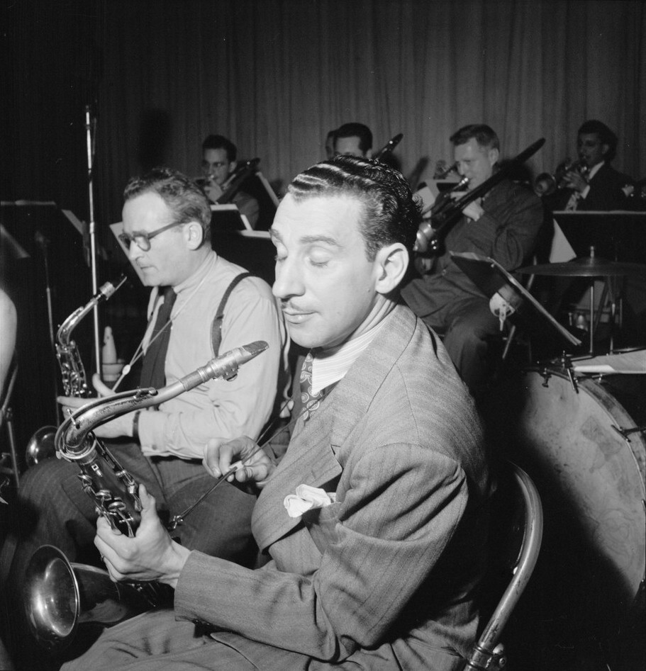 Arthur Rollini, Sidney Stoneburn, and Vernon Brown, Museum of Modern Music program, ABC studio, New York, N.Y.